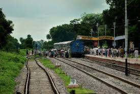 mauranipur